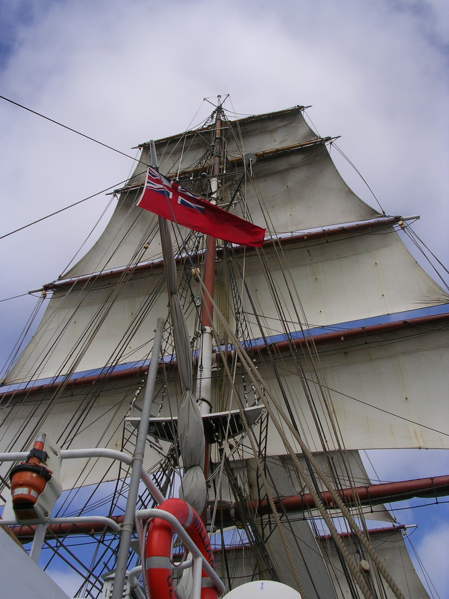 Mainmast of the Prince William, from aft. Sails set are (from the top) main-royal, main-topgallant, main-upper-topsail and main-lower-topsail. The main-course is stowed, as is the spanker.